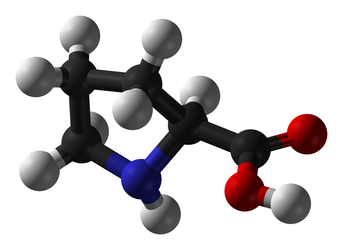 Ball-and-stick model of L-proline